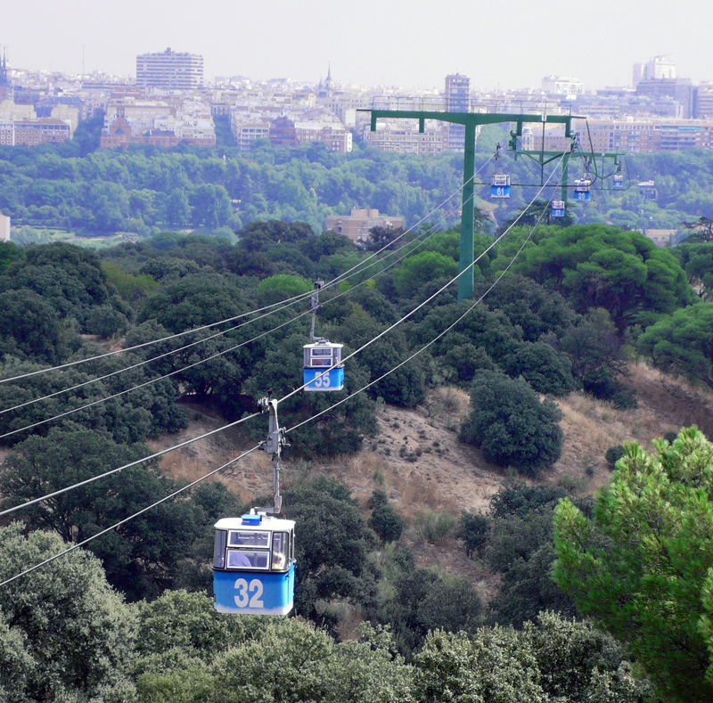 Madrid cablecar between Paseo de Pintor Rosales and Casa de Campo (view from Casa de Campo)